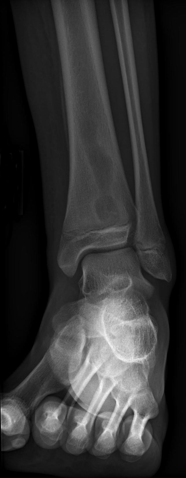 AP radiograph of the distal tibia showing a lytic lesion proved to be a subacute staphlococcal osteomyelitis.